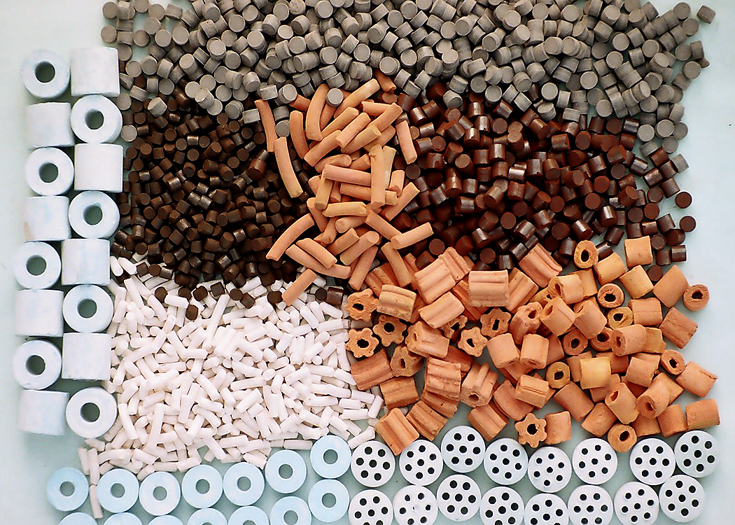 Image showing the complete range of catalysts manufactured by PDIL